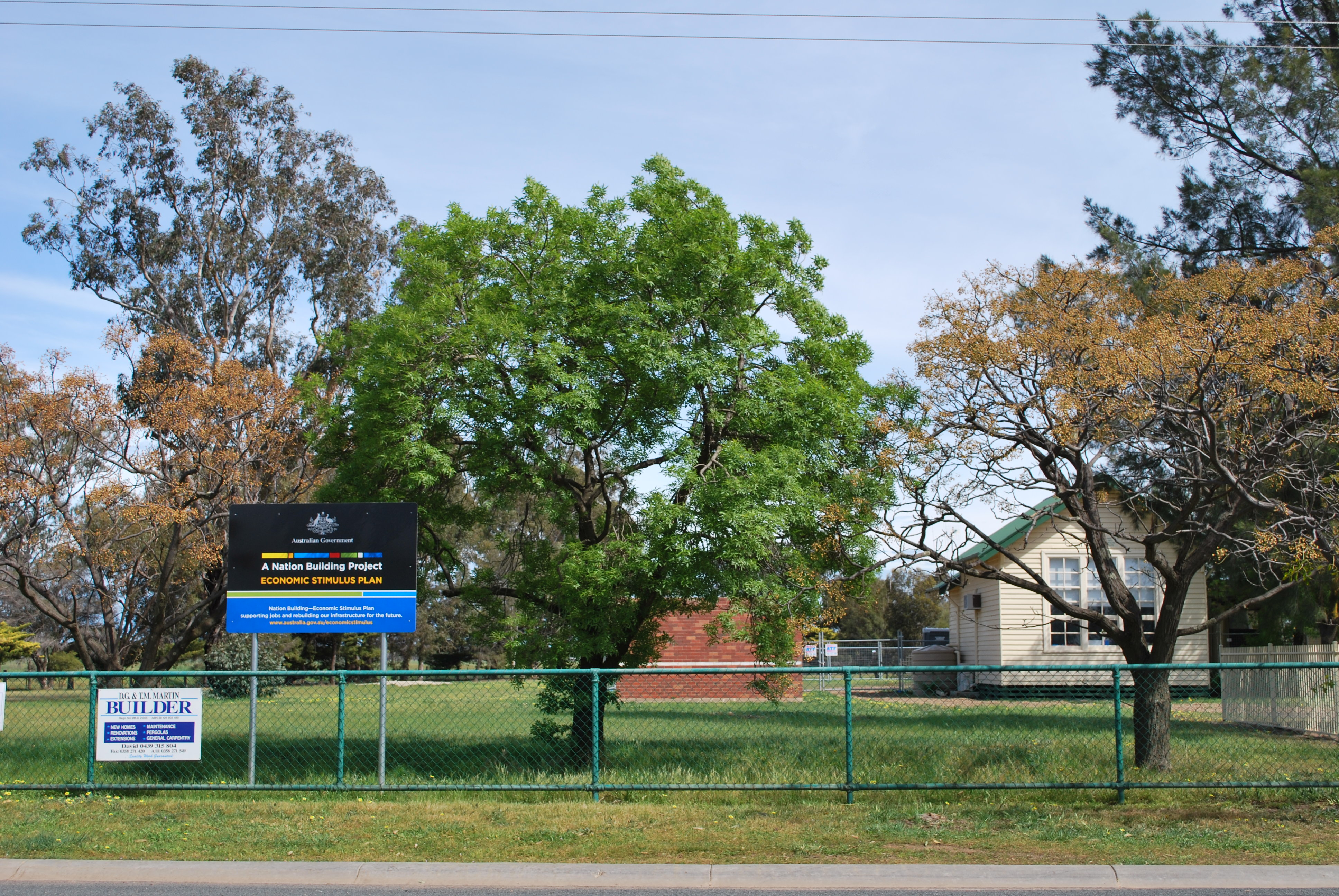 Kialla Central Primary School featuring a "Stimulus Package" sign